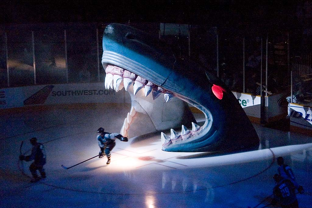 Columbus Blue Jackets vs. San Jose Sharks 3/16/2007